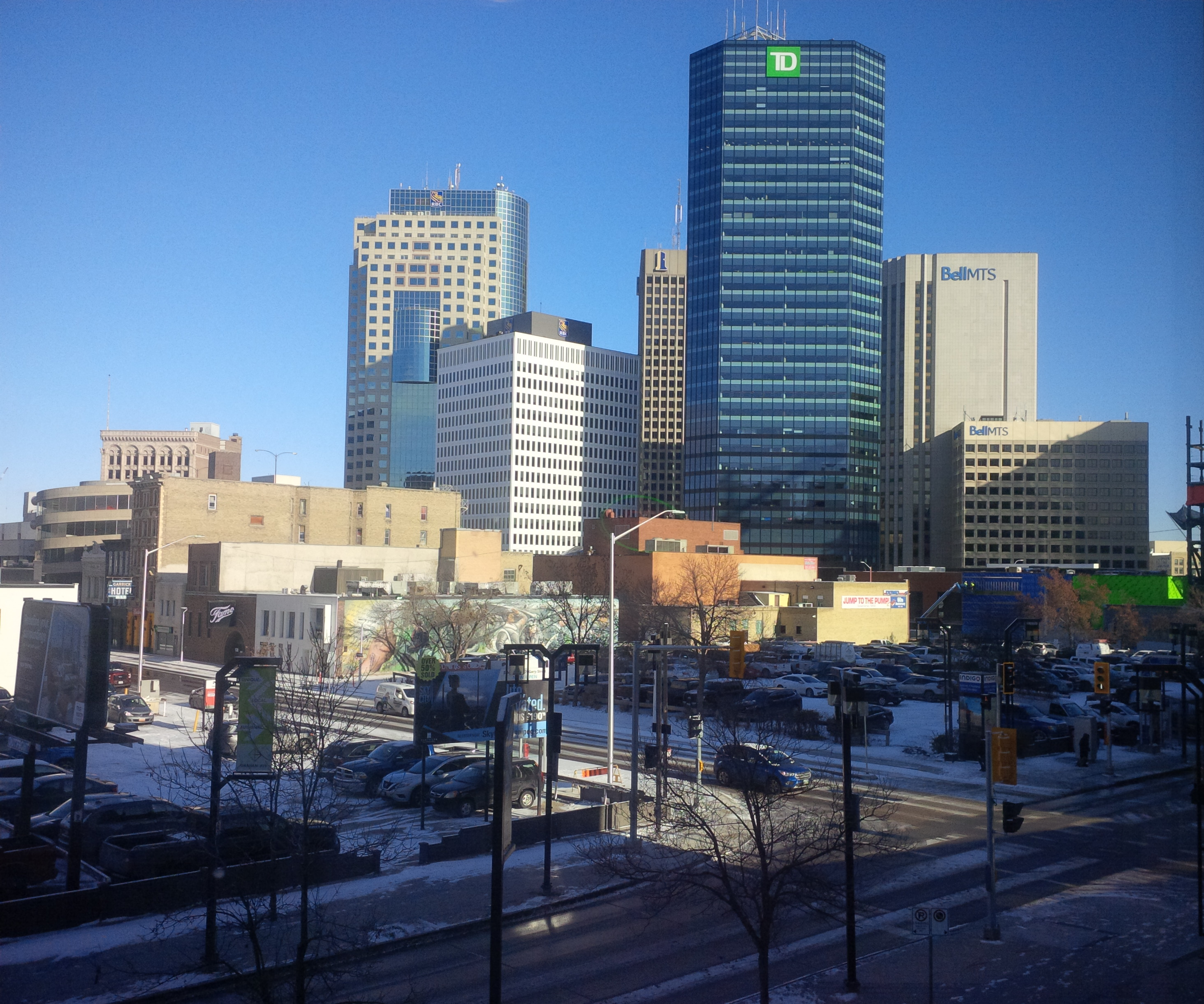 Major office towers of downtown Winnipeg skyline as seen in 2019.